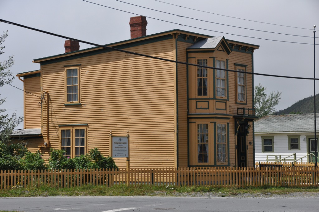 O'Reilly House Registered Heritage Structure, Placentia, Newfoundland. A local house museum.